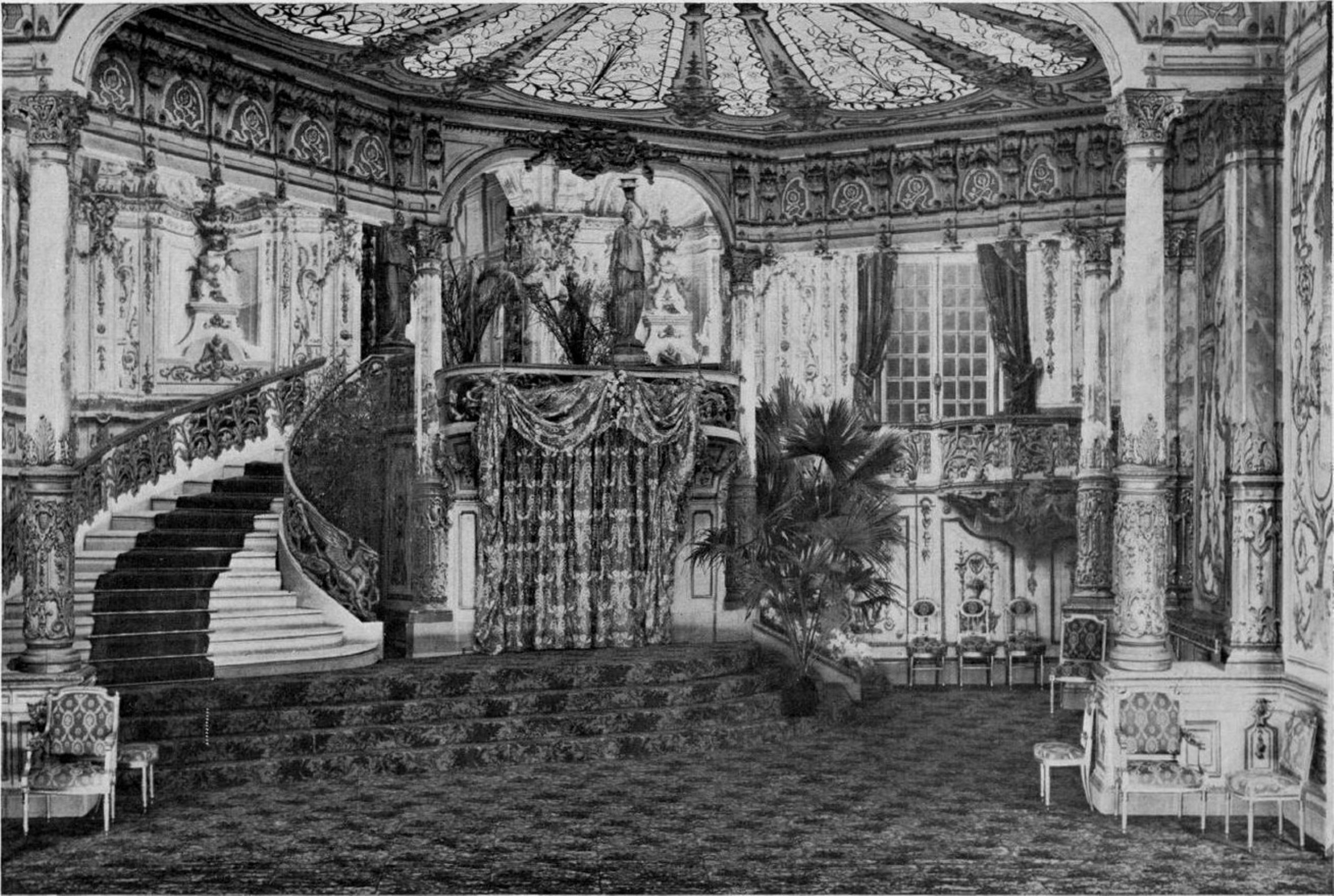 Decor of the comedy Education Prince of Maurice Donnay at the Théâtre des Variétés in Paris in May 1900. This is the act III, entitled: The Feast of Kings. Education de prince is a comedy in four acts by Maurice Donnay, first published as a soap opera in the magazine La Vie Parisienne in 1893 and created on the stage of the Théâtre des Variétés on 17 March 1900 with Albert Brasseur, Jeanne Granier, Ève Lavallière and Amélie Diéterle.